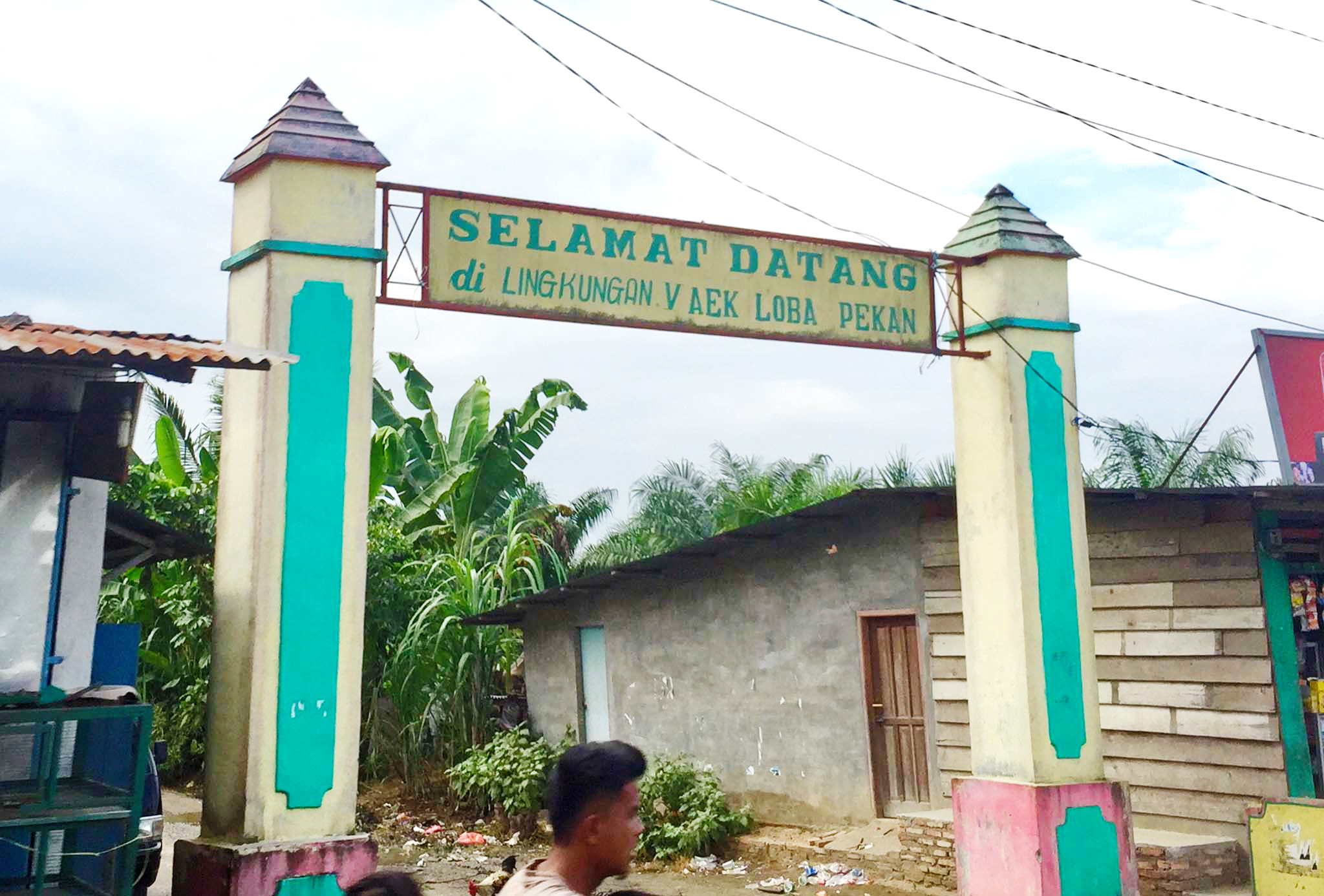 welcome gate to Aek Loba Pekan (Lingkungan V), Aek Kuasan, Asahan